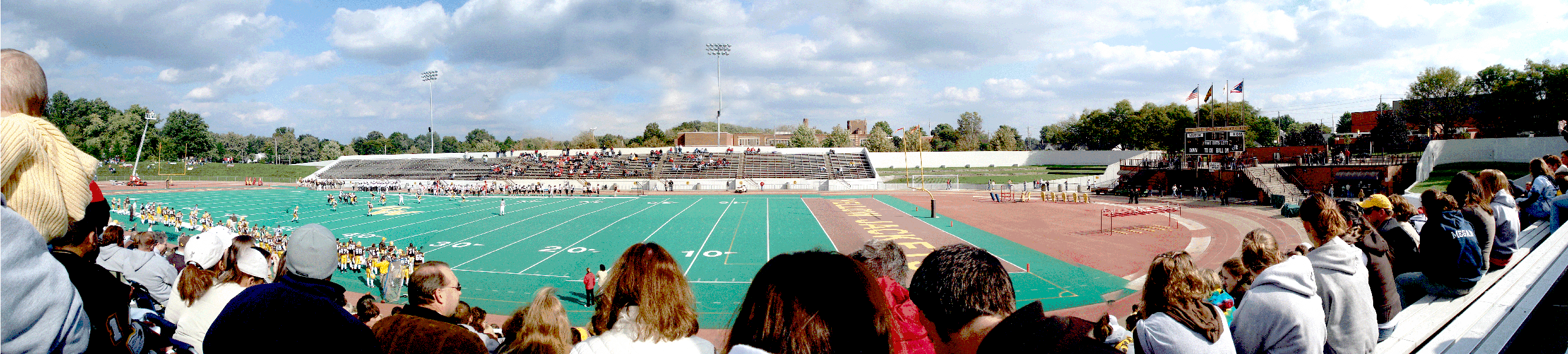 Picture of George Finnie Stadium in Berea Ohio at Baldwin Wallace College